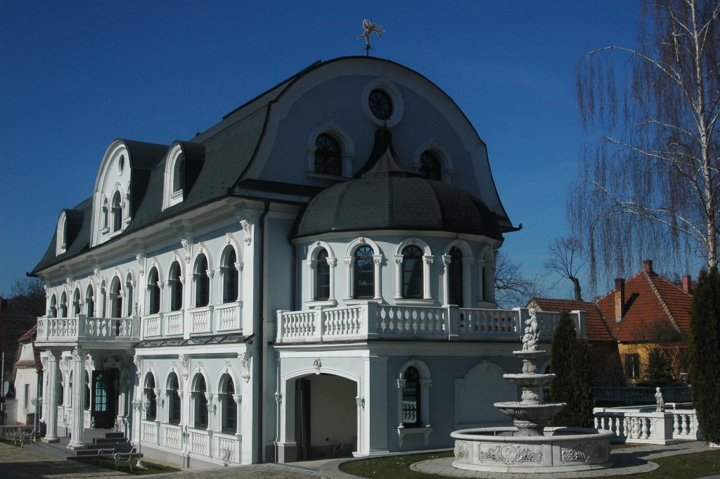 Vrbovce, Myjava District, Slovakia.